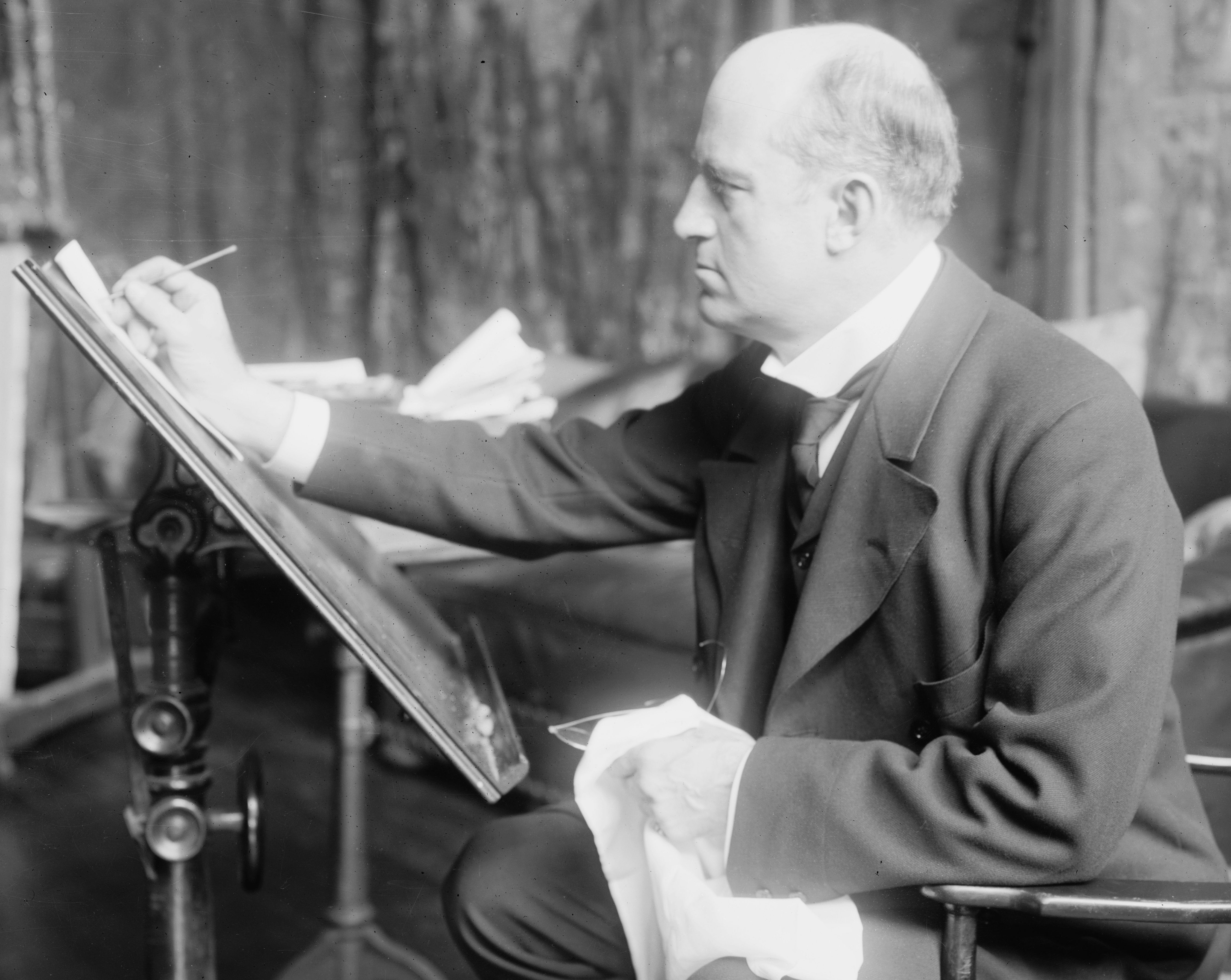 American graphic artist Charles Dana Gibson (1867–1944)